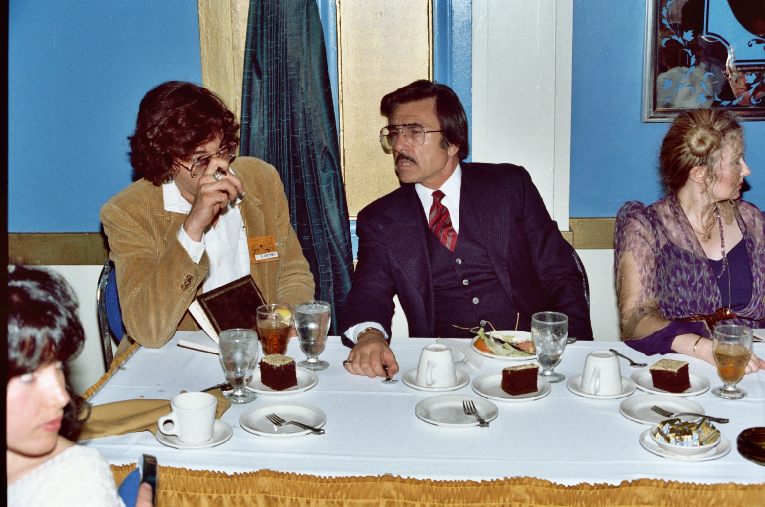 Announcer ("Laugh-In") and DJ Gary Owens (middle) at the 1982 San Diego Comic Con (today called Comic-Con International). The man at left with his hand in front of his face is Denis Kitchen. NOTE: Permission granted to copy, publish, broadcast or post any of my photos, but please credit "photo by Alan Light" if you can. Thanks